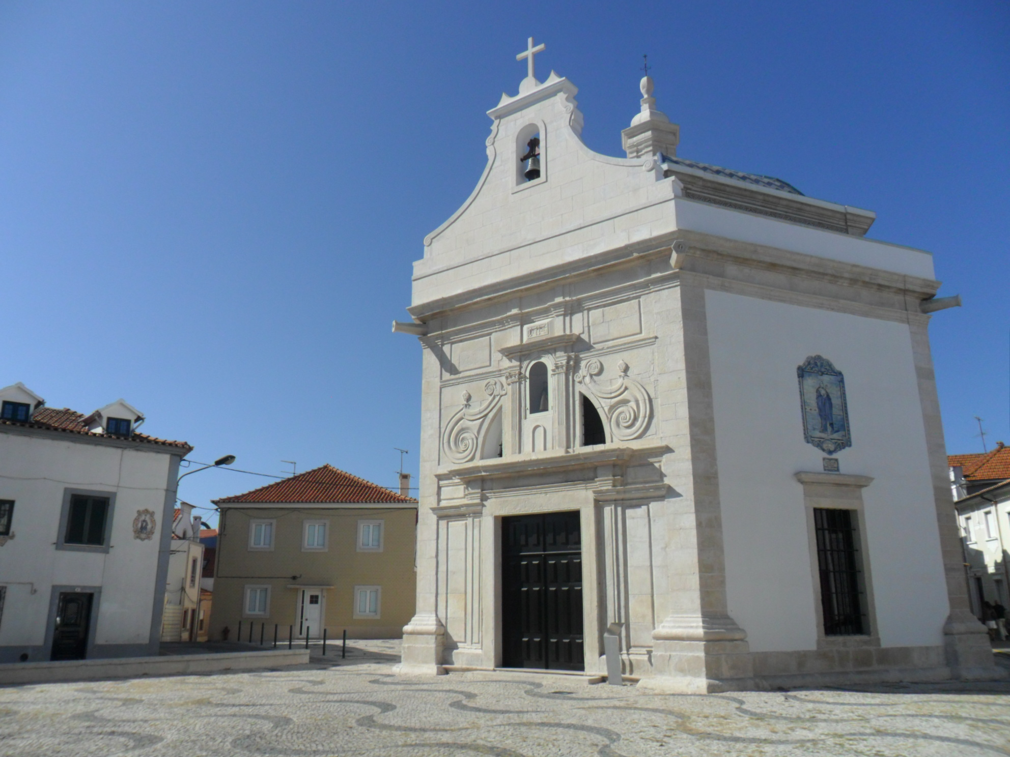 This file was uploaded for Wiki Loves Monuments in Portugal with the unique identifier 155609.